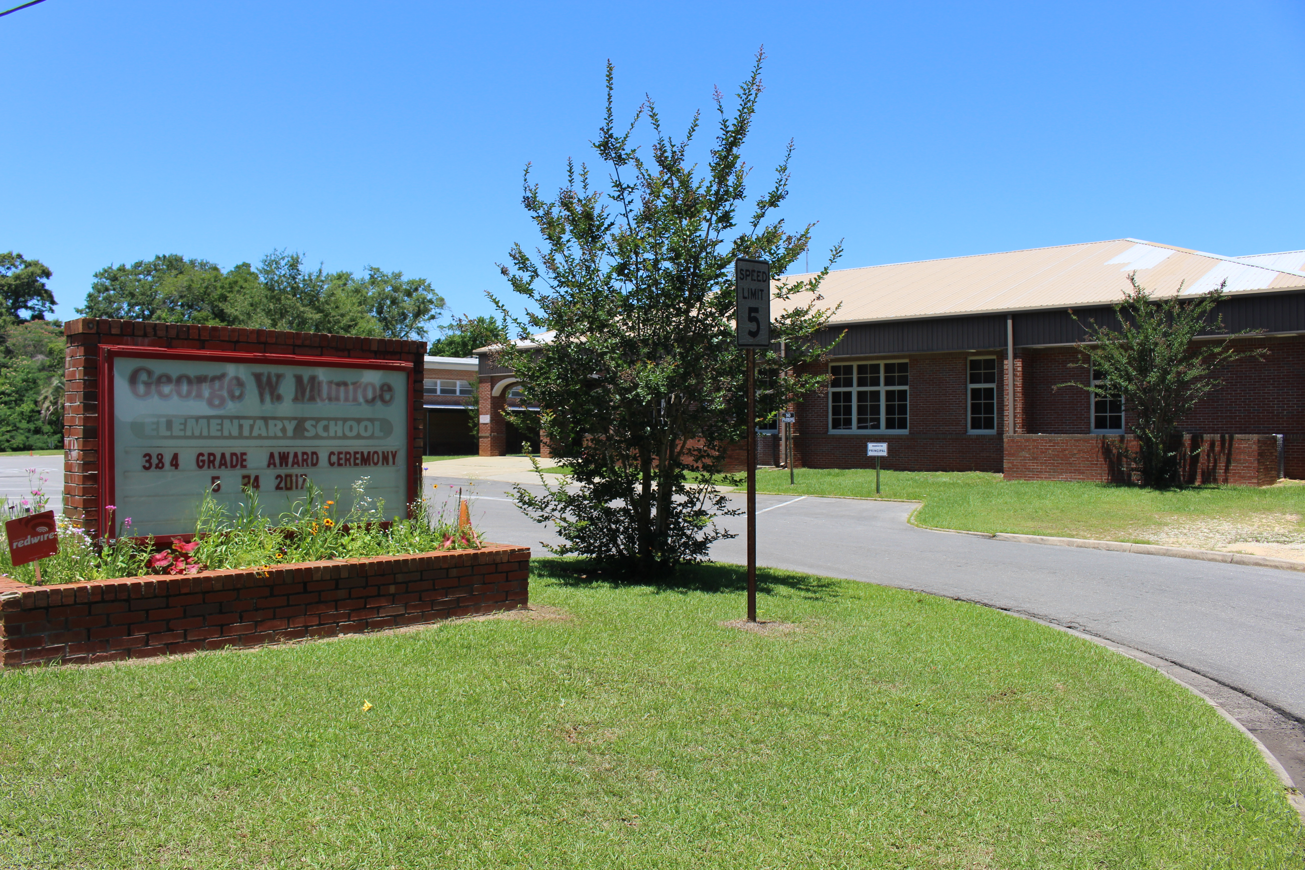 Quincy, Gadsden County, Florida